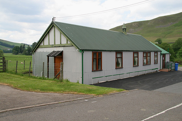 Bentpath Village Hall